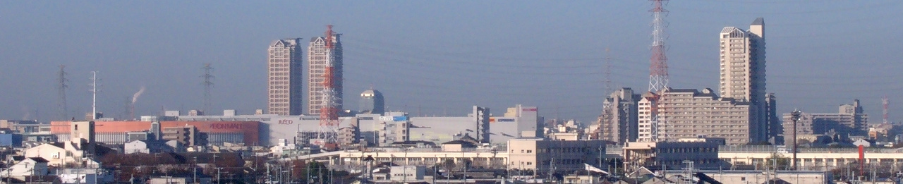 Kitahanada in Sakai, Osaka pref., Japan.